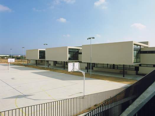 Damià Huguet Hight School from Campos.